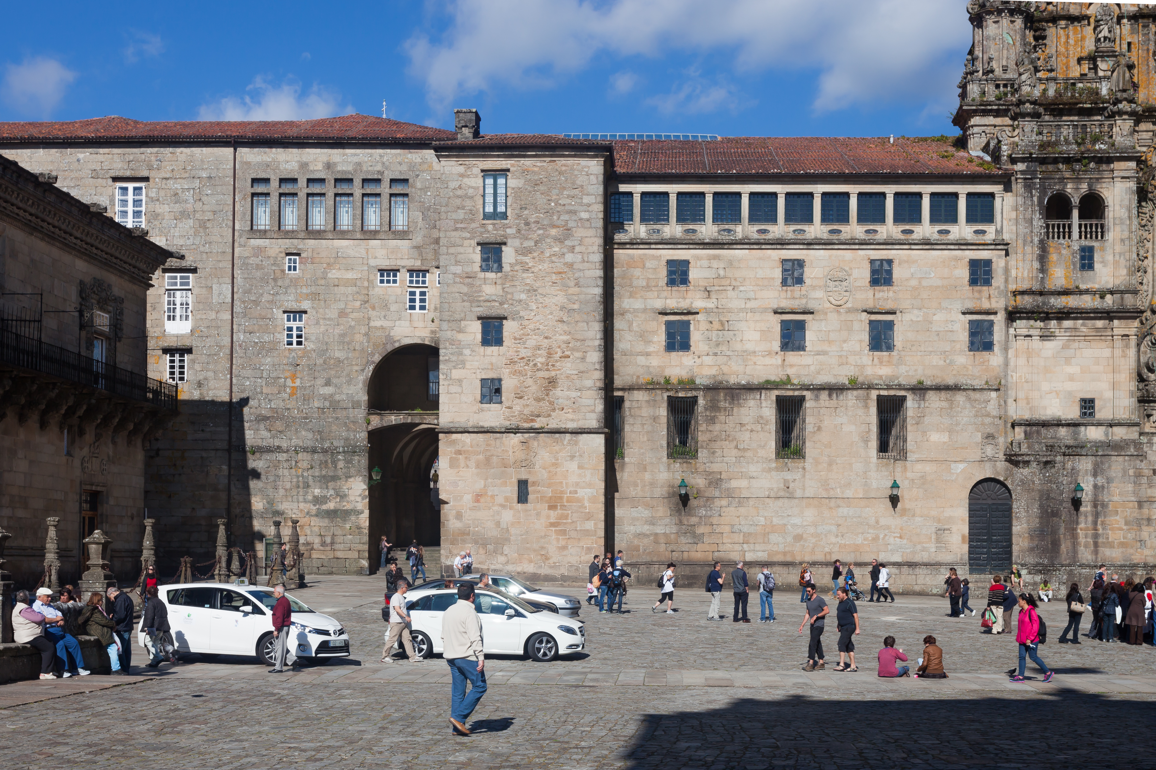 Manor house of Xelmirez, Obradoiro square, Santiago de Compostela, Galicia (Spain)